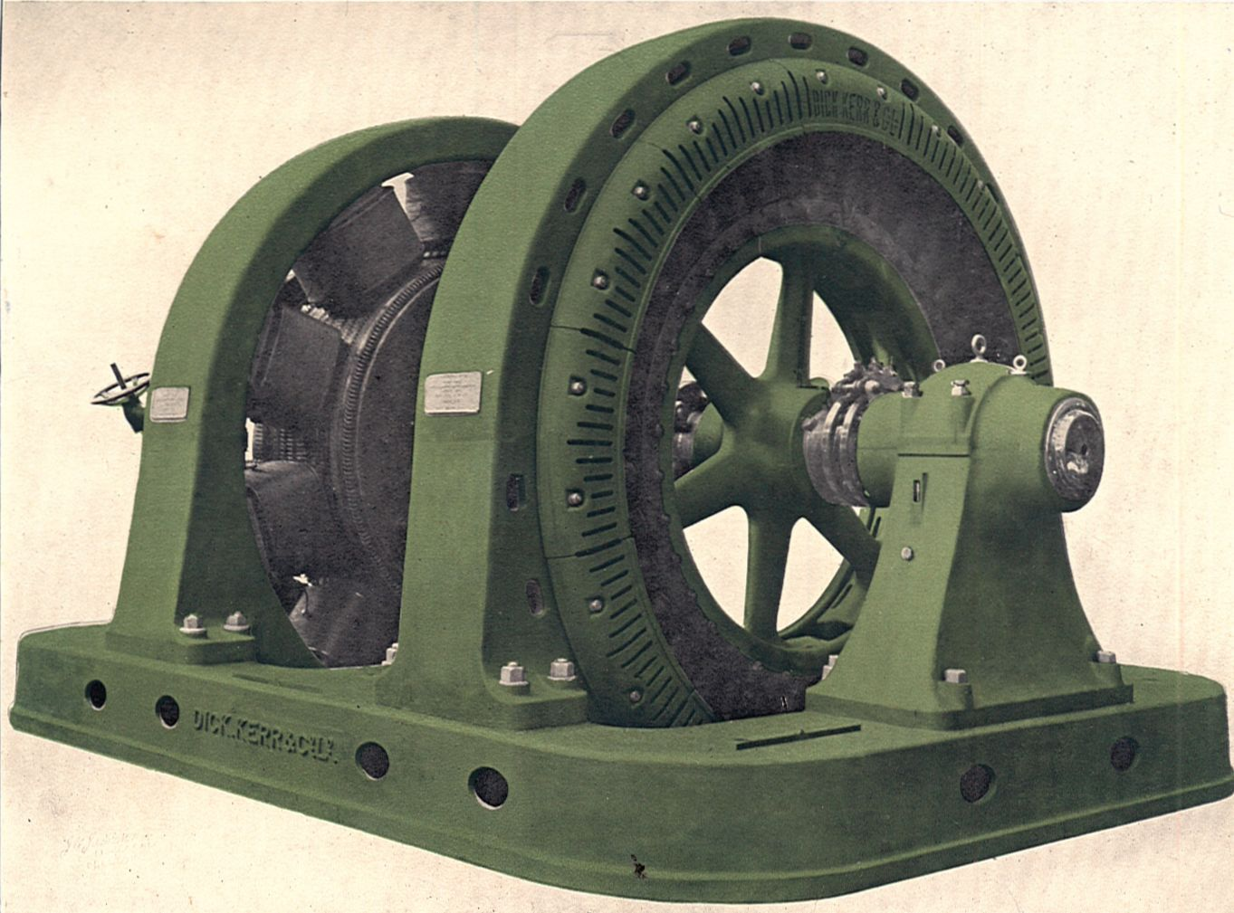 Synchronous motor-generator set for AC to DC conversion (Rankin Kennedy, Electrical Installations, Vol II, 1909).jpg